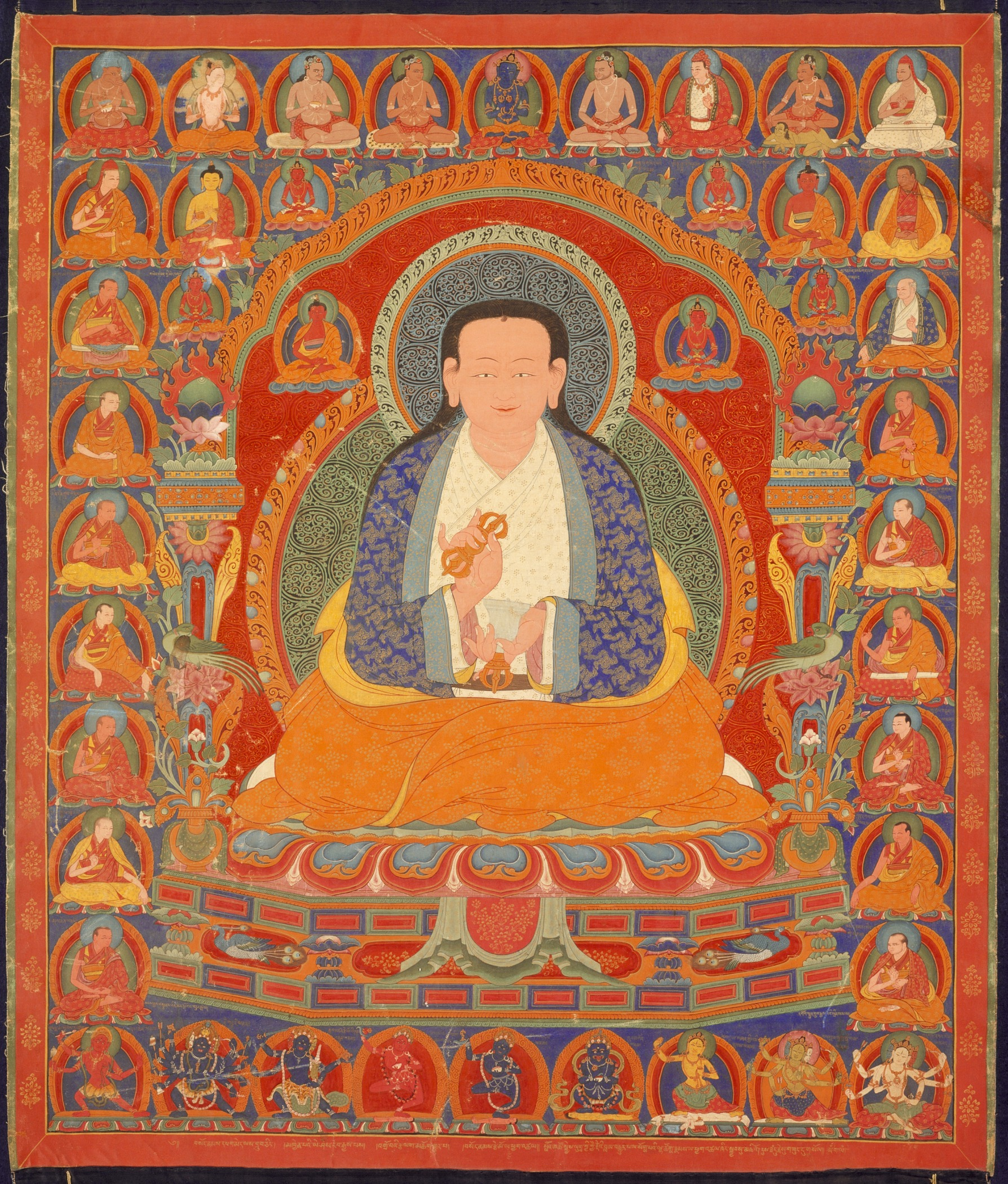 Central Tibet, Ngor Monastery, early 17th century Paintings Mineral pigments and gold on cotton cloth Gift of Mr. and Mrs. Paul E. Manheim by exchange (M.70.57) South and Southeast Asian Art